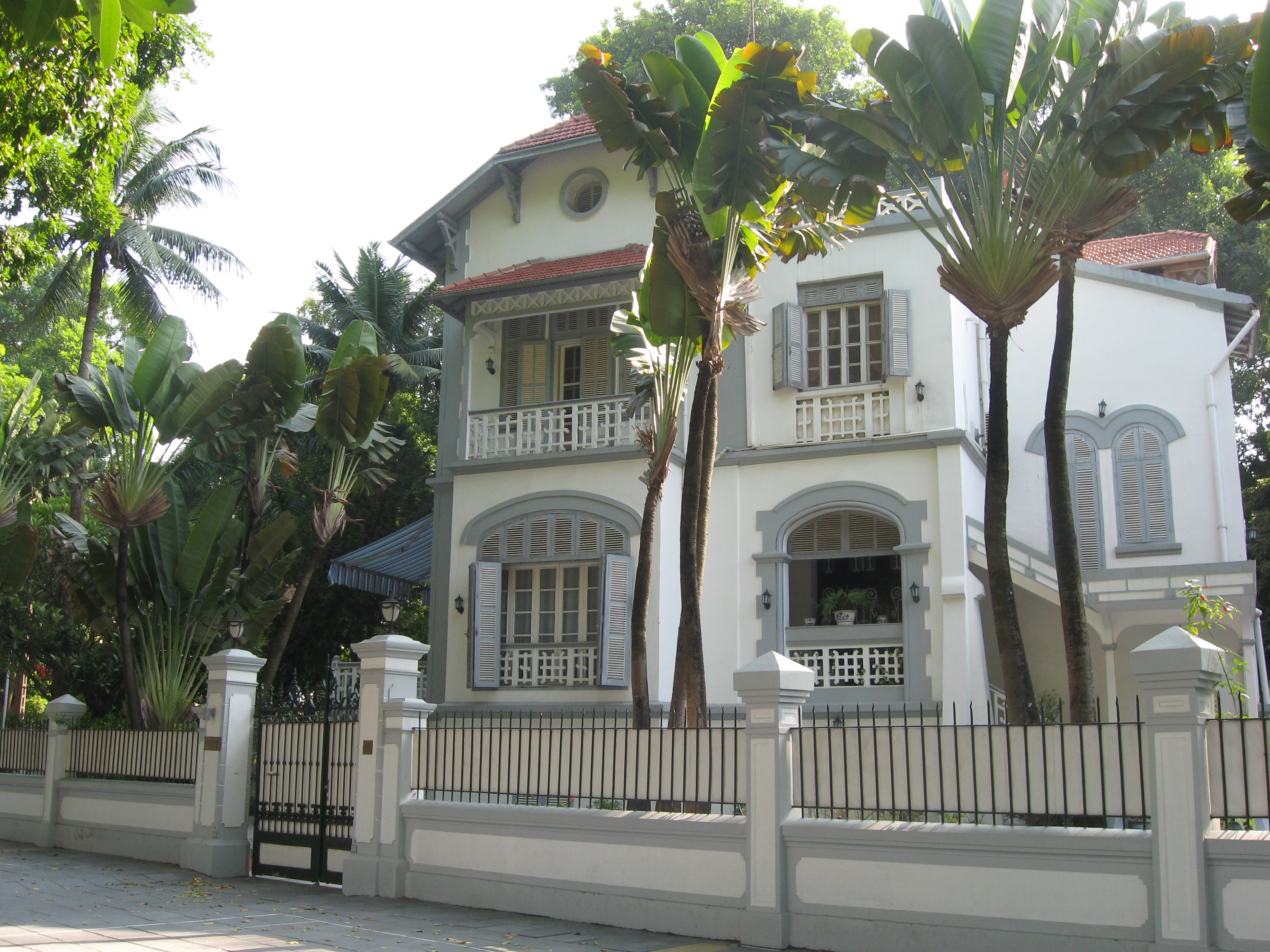 French colonial architecture in Hanoi, Vietnam